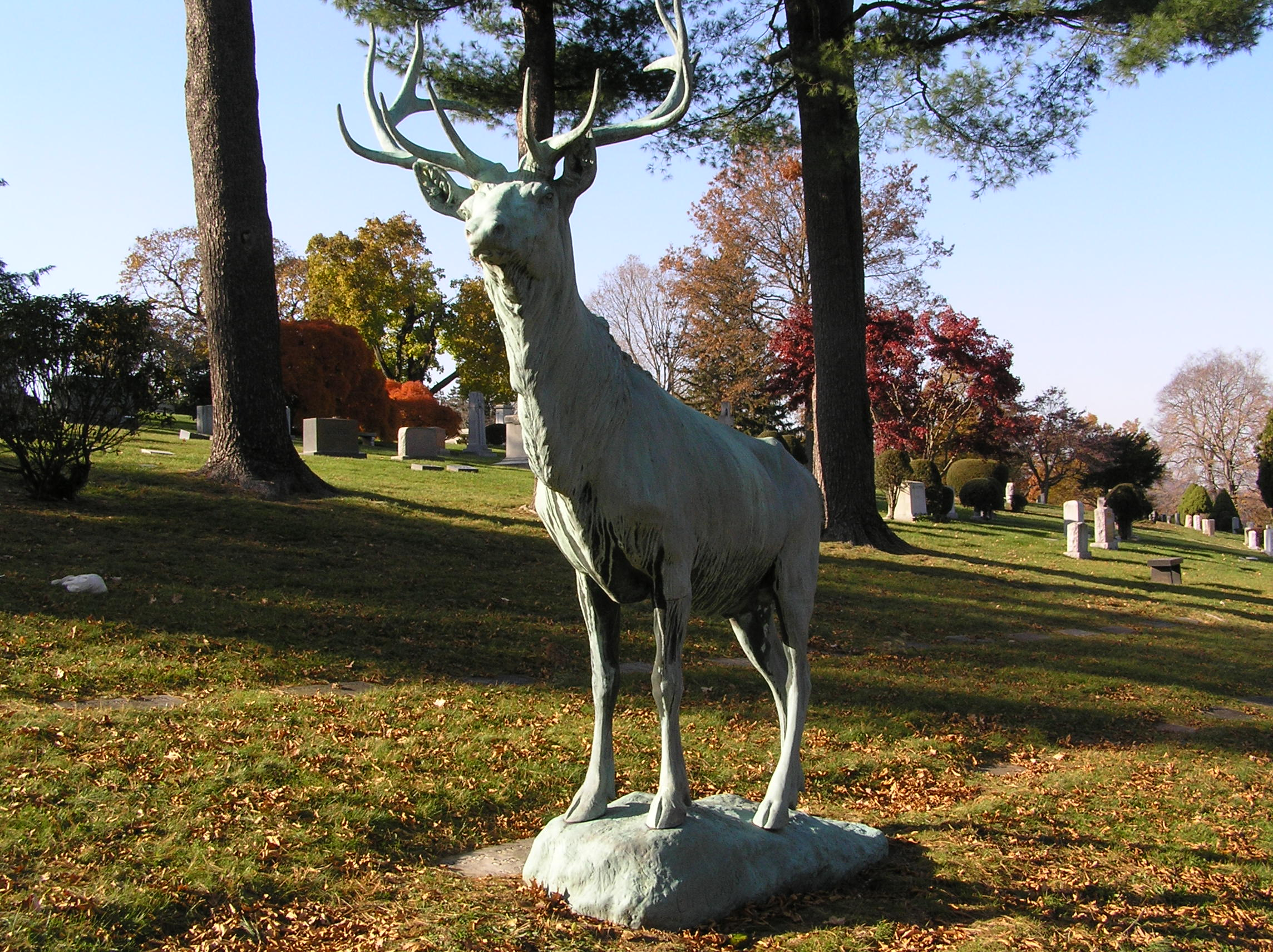 An interesting statue of an elk by Eli Harvey in Kensico Cemetery